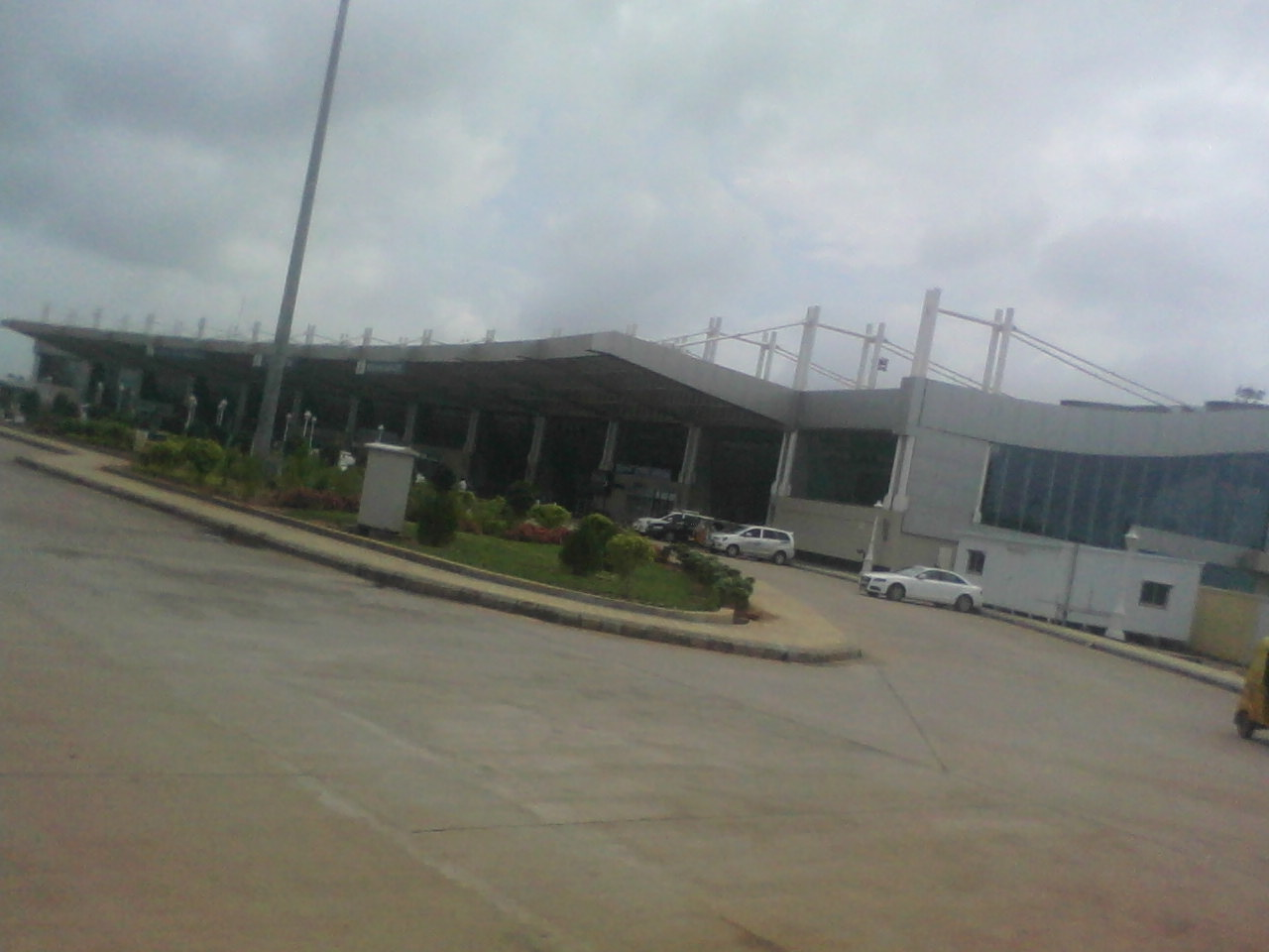 Domestic Airport situated at Madurai